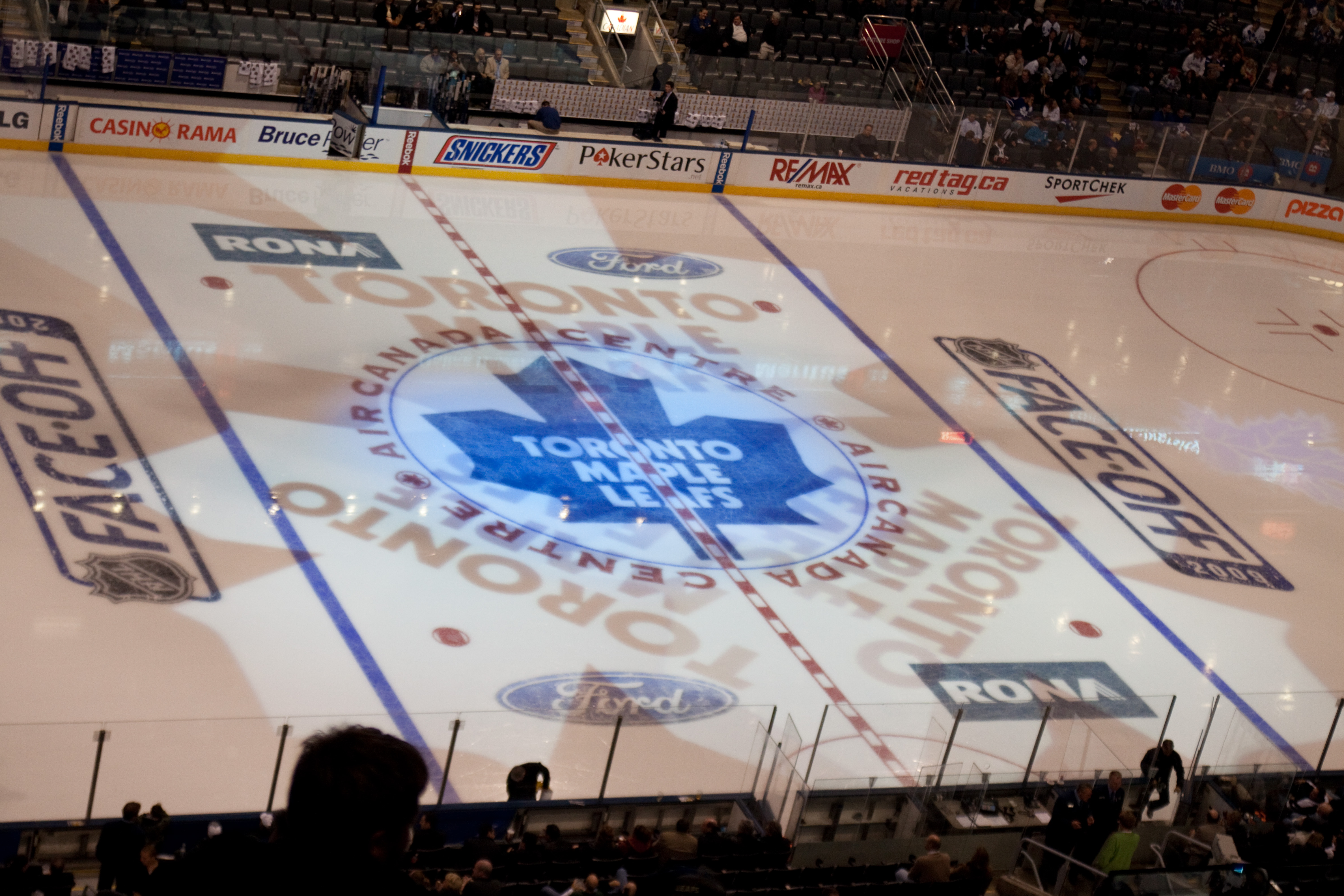 Toronto Maple Leafs Air Canada Arena